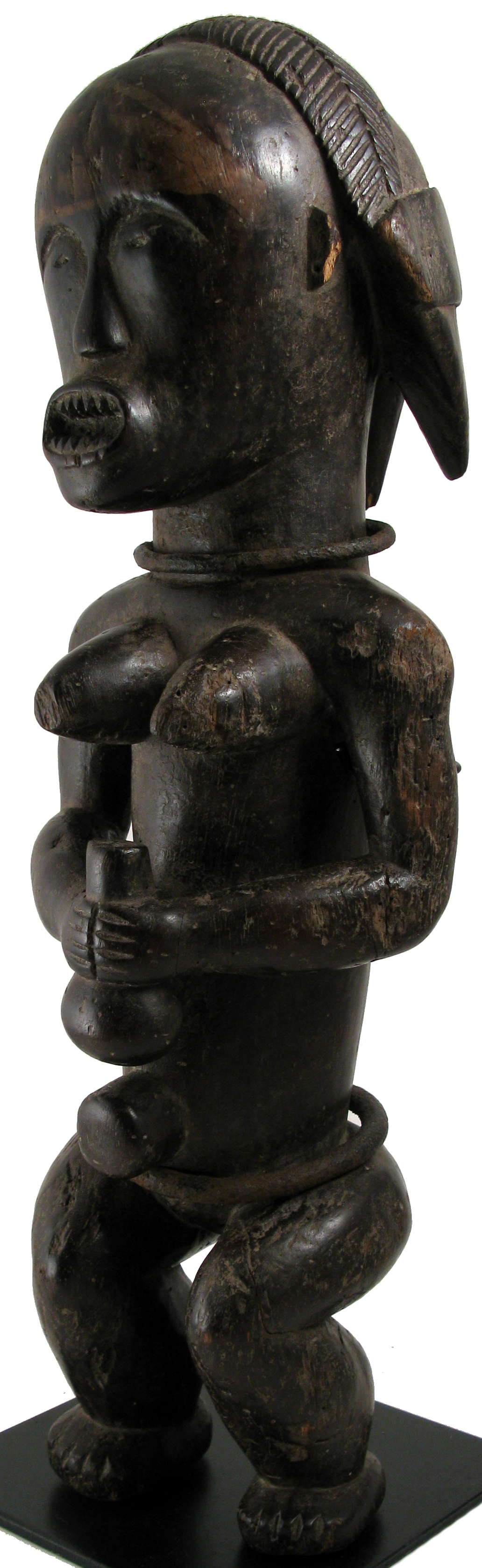 A nice little byeri figure, with a shiny darkened patina. Some signs of wear. Dimensions: 45x14x14cm Byeri Figure used as a guardian statue to surmount the Reliquary Byeri Box in which bones of important ancestors were held. If you double click an image, click the actions tab then scroll to view all sizes you will be able to view large full size images Further information or more images of individual pieces please contact us with image number: Ann Porteus Sidewalk Tribal Gallery 19-21 Castray Esplanade, Battery Point 7004 Hobart Tasmania Australia t: 613 6224 0331 ABN 99 900 255 141